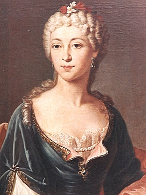 Maria Caroline Charlotta Freiin von Ingenheim (1704–1749) verheiratete Spreti, Geliebte von Kaiser Karl VII., Ahnfrau des Adelsgeschlechtes von Holnstein.